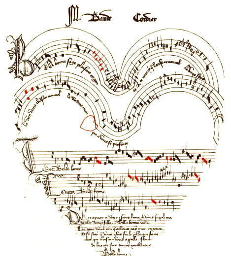 Score of Baude Cordier's chanson "Belle, bonne, sage," from The Chantilly Manuscript, Musée Condé 564. The manuscript is one of the classic examples of ars subtilior, which requires red notes, or "coloration" to indicate changes in note lengths from their normally written values. This chanson, a dedicatory piece on the love of a lady and a lord written in the shape of a heart, opens the corpus. Note the heart of notes within the larger heart.